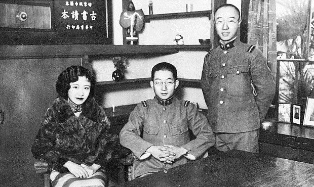 Gobulo Runqi and his wife and Aisin-Gioro Pujie